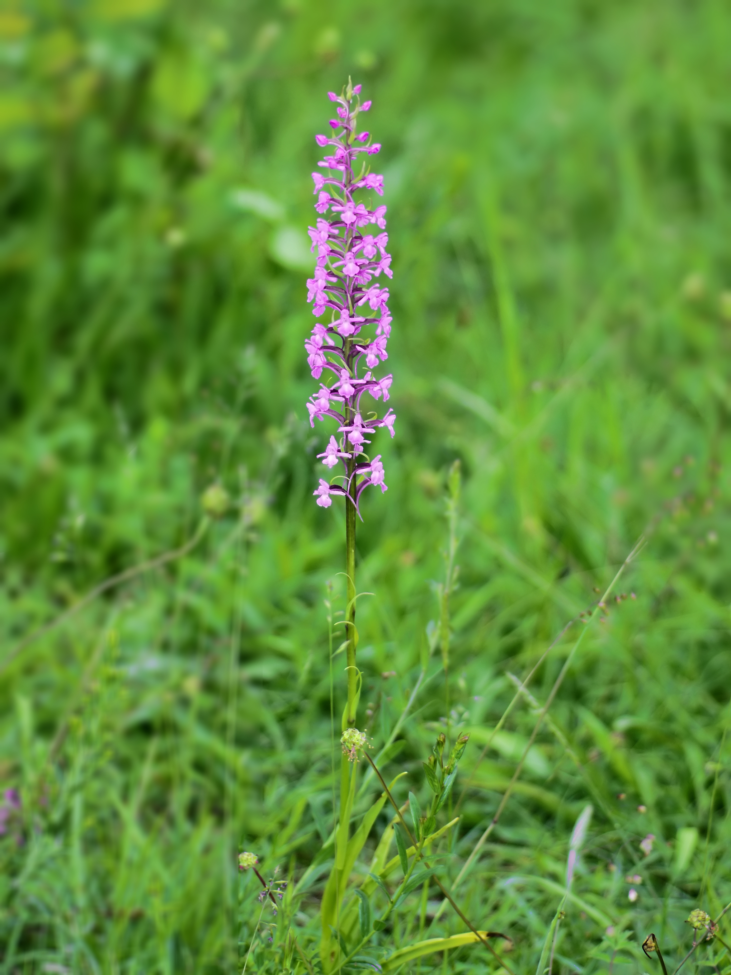 Fragrant orchid.